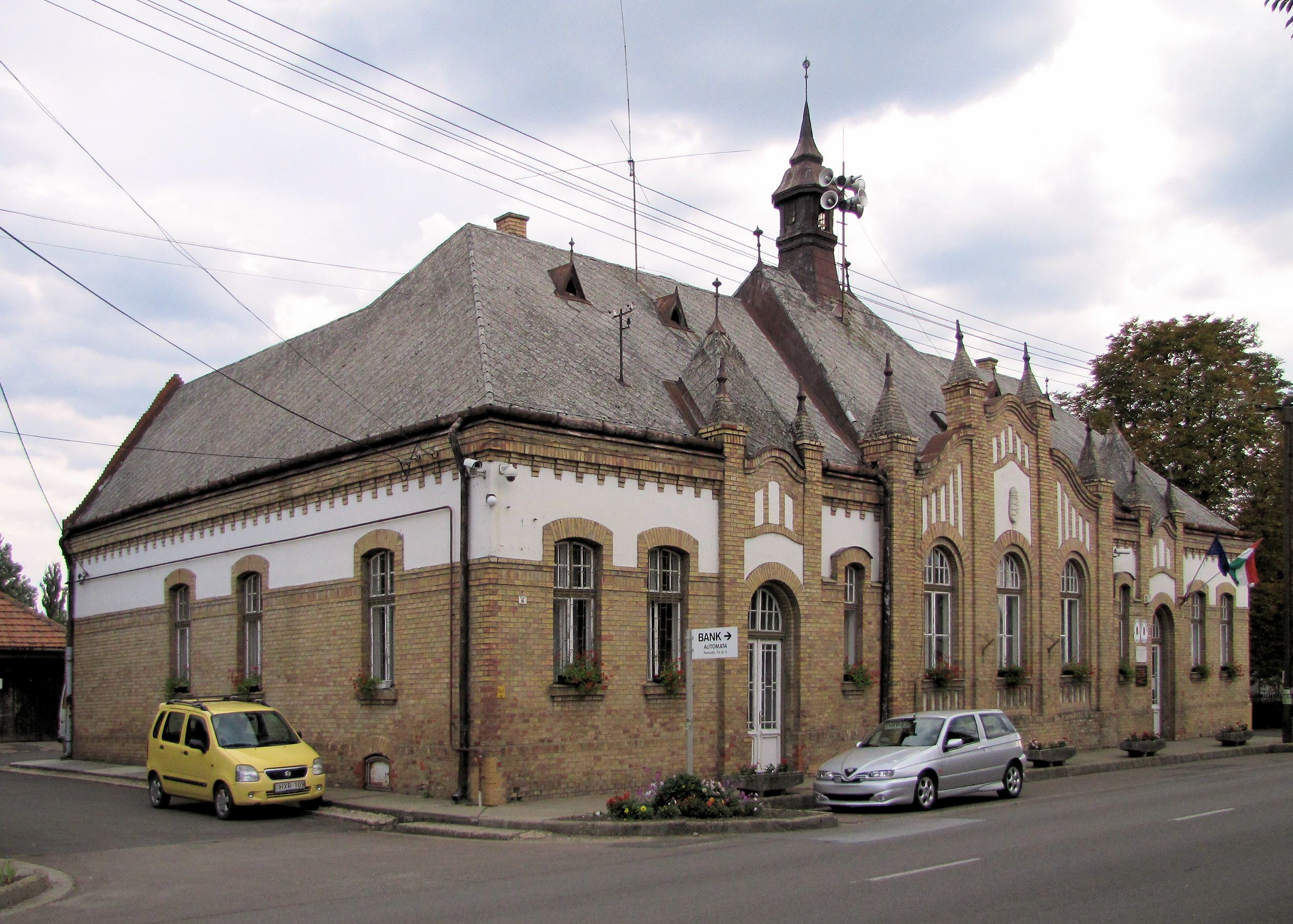 Municipal hall, Poroszló, Hungary This is a photo of a monument in Hungary. Identifier: 5827